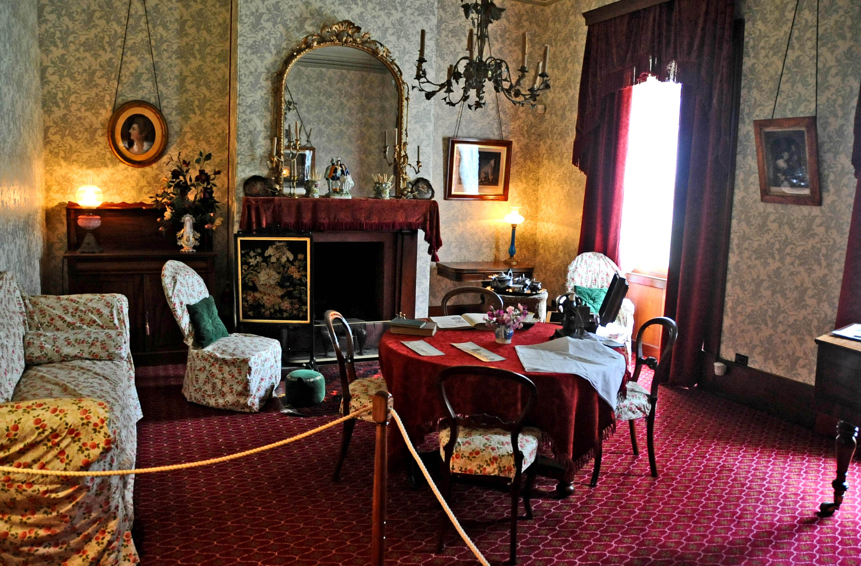 PORT ARTHUR HISTORIC SITE; SEE "PORT ARTHUR, TASMANIA" ON WIKIPEDIA